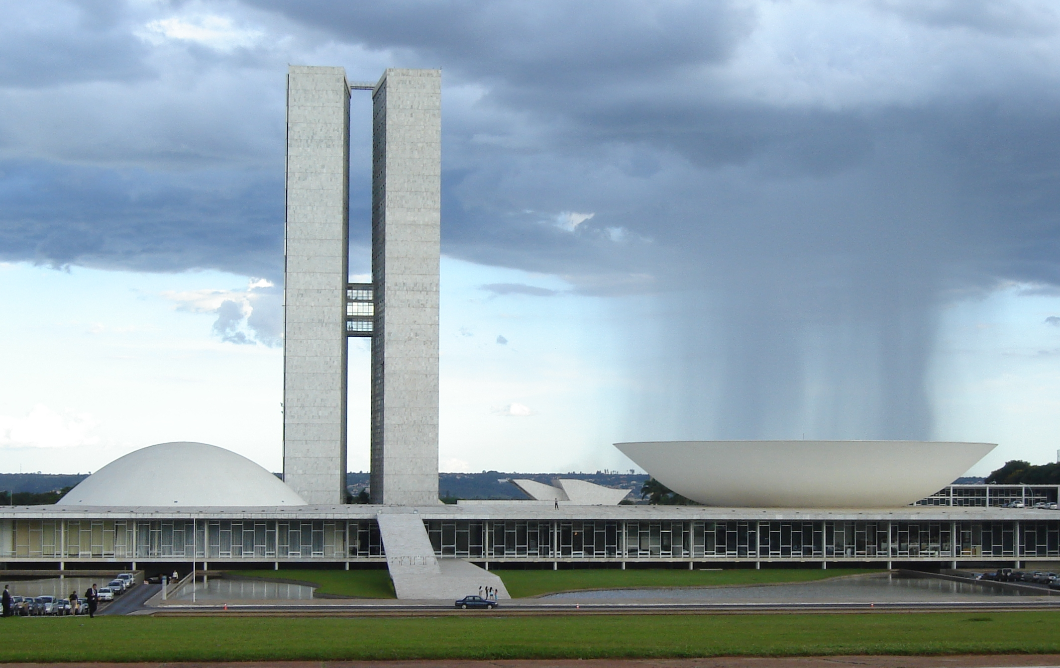 Brazilian Congress with rain on the background. Architecture by Oscar Niemeyer.